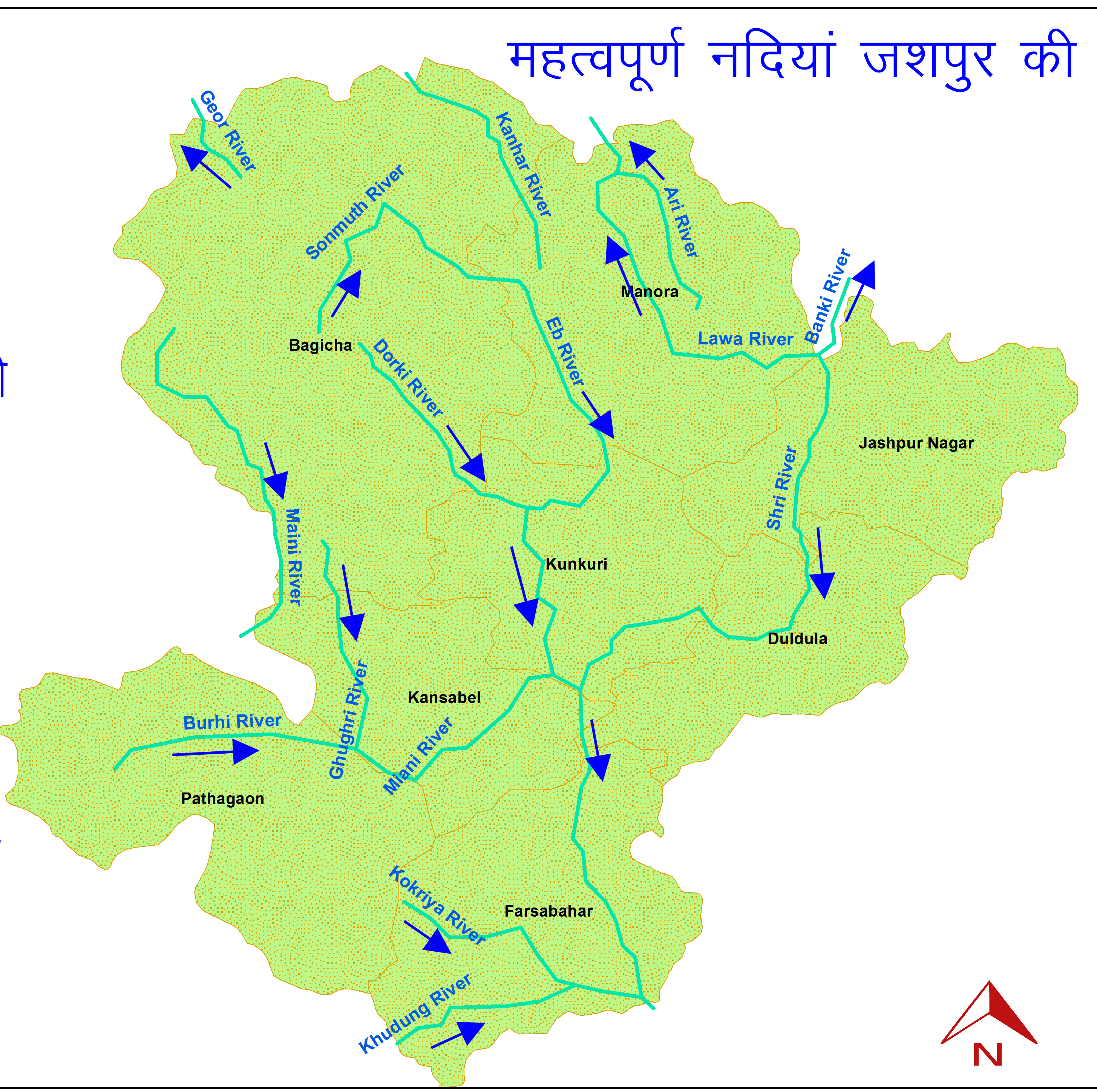 all rivers of Jashpur giving life. Important rivers of Jashpur which is flowing in different direction within.